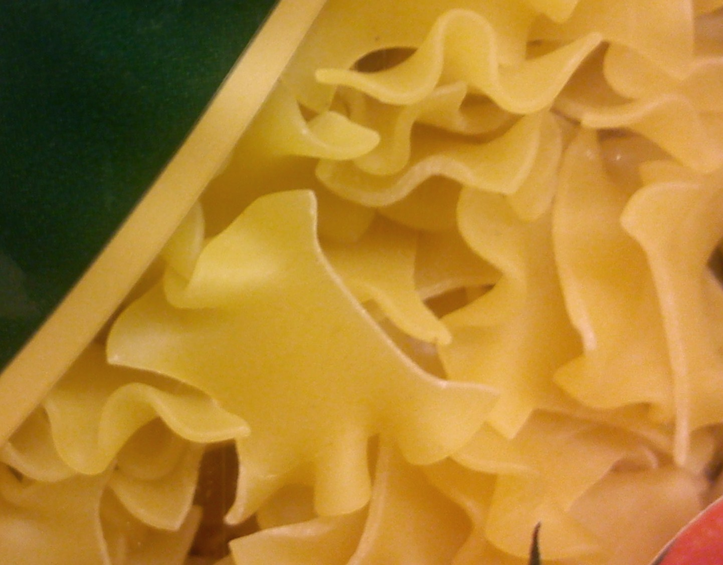 Pasta italiana.